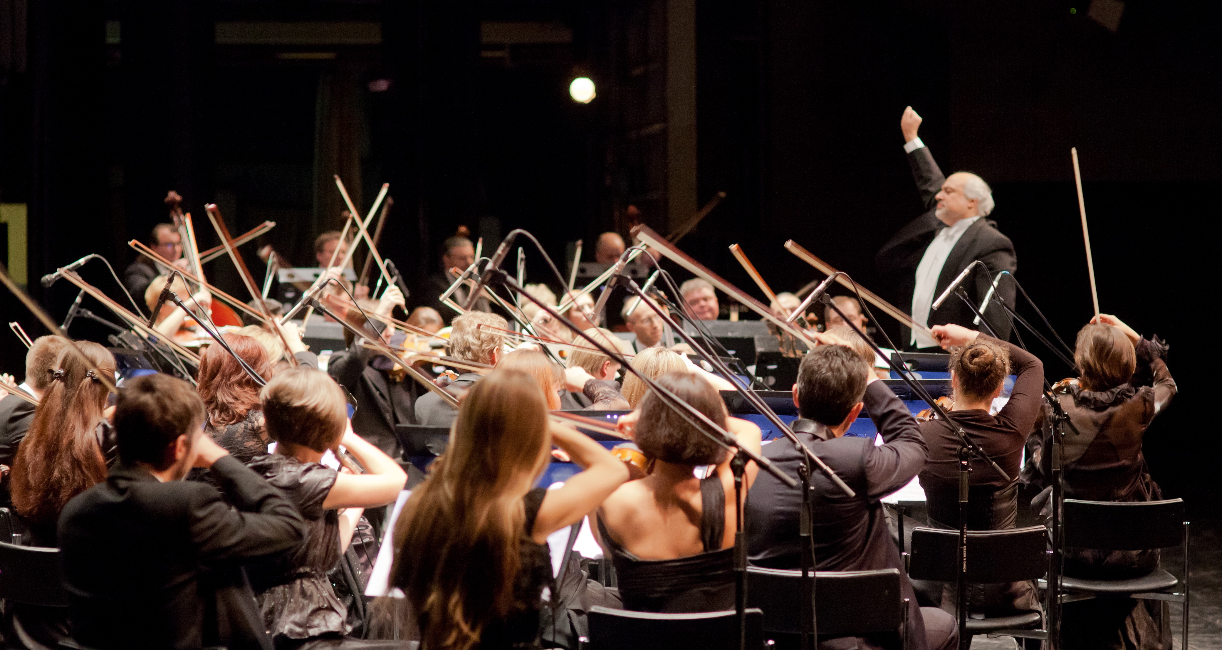 Constantine Orbelian with Baltic Symphony Orchestra